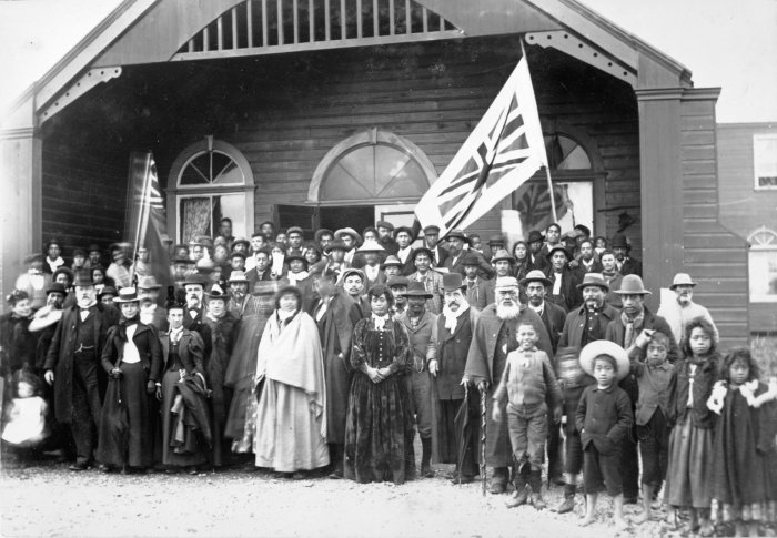 Maori group in the porch at the opening of the large two-storied Parliament house of the Kotahitanga movement at Pāpāwai, Greytown, New Zealand; Richard John Seddon stands to the left of the group. 1897. Pāpāwai was the seat of the Maori Parliament in the 1890s; it later fell into disrepair in the years following World War One.